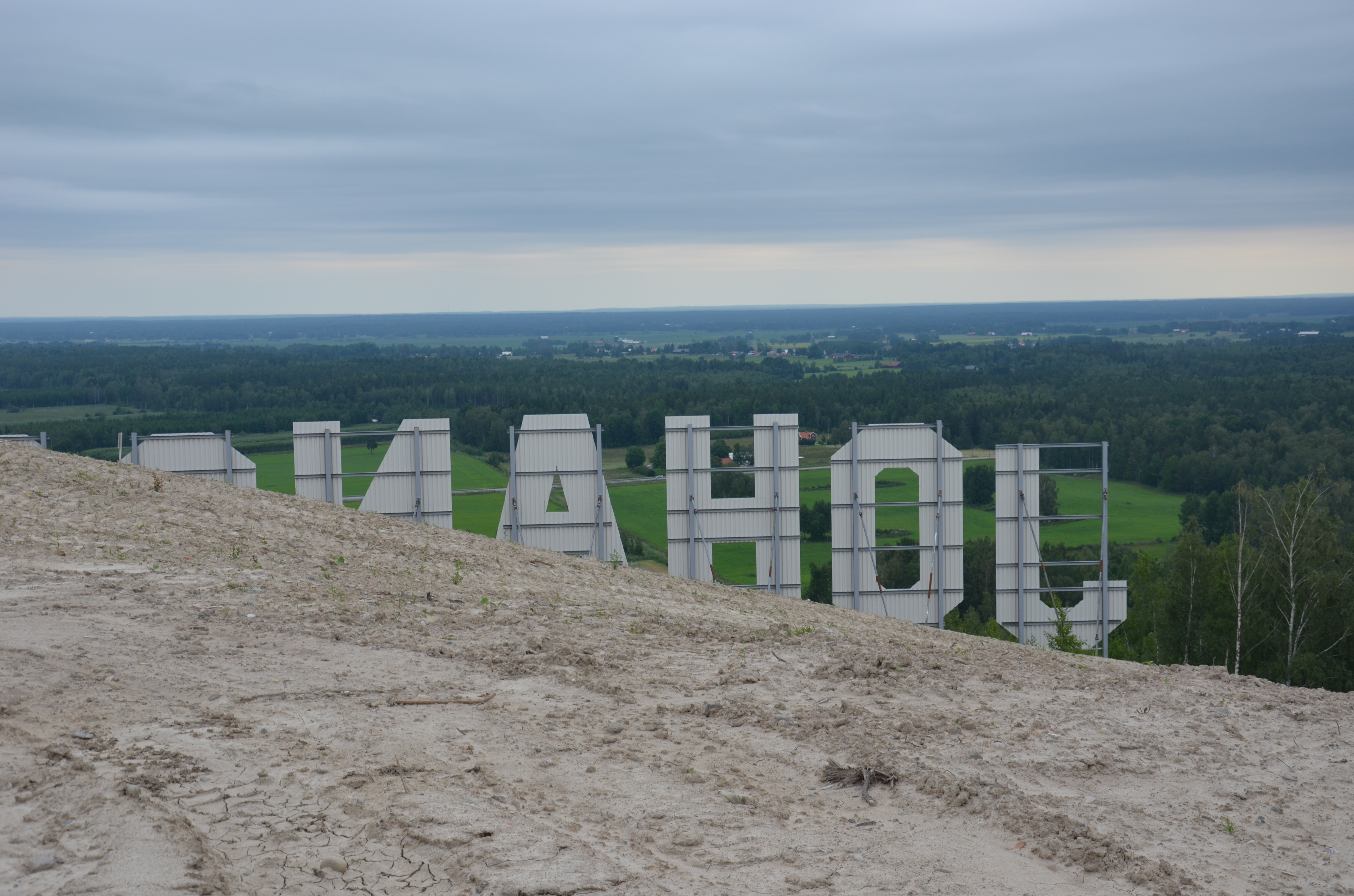 Utan titel av Peter Johansson, 2006, Konst på Hög